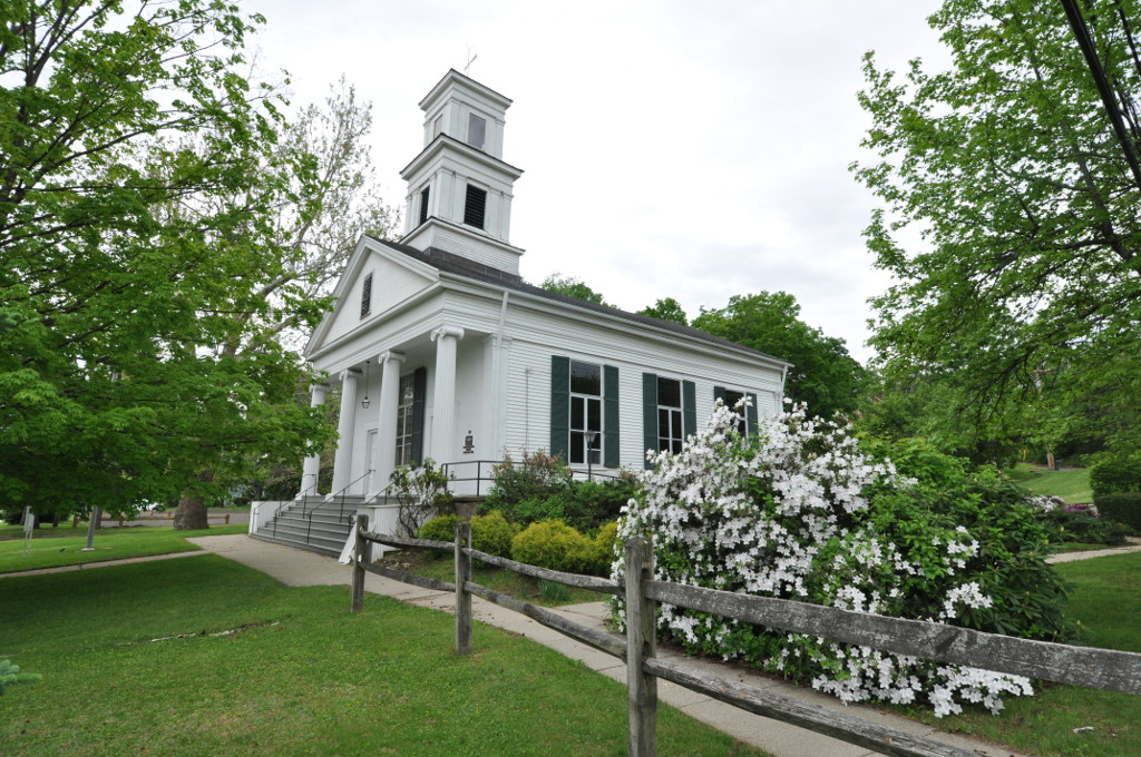 Mount Carmel Congregational Church and Parish House, Hamden, Connecticut. View of the church.